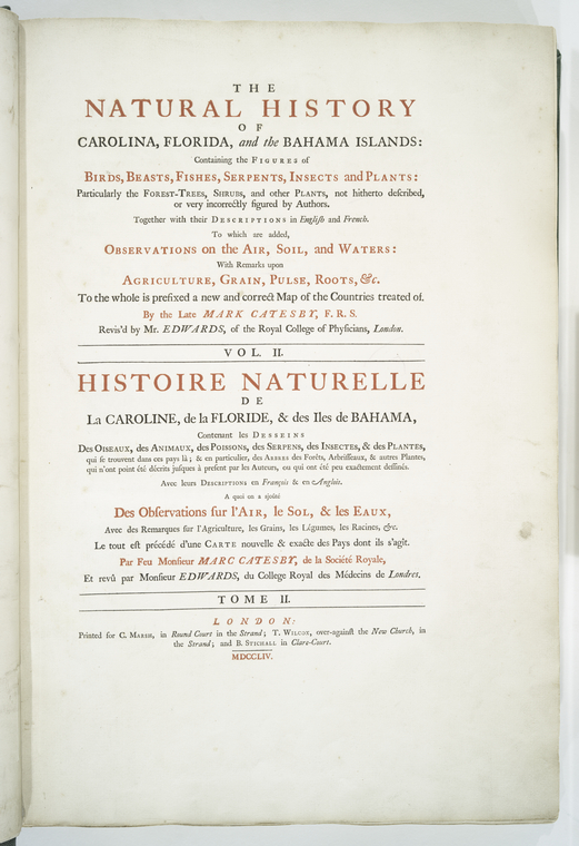 Title page of Mark Catesby's The Natural History of Carolina Florida and the Bahama Islands, Vol. 2, published at London, 1754. Image courtesy of the New York Public Library Digital Collection.